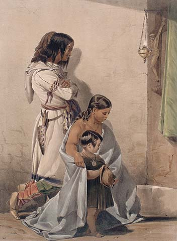 The Huron Indians of Loreth. The Huron were one of the major early Iroquoian Indian groups in Ontario. Lithography by John Richard Coke Smyth (1808-1882), c. 1838.